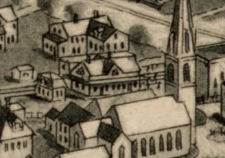 Canton Center station on a 1918 bird's eye view map